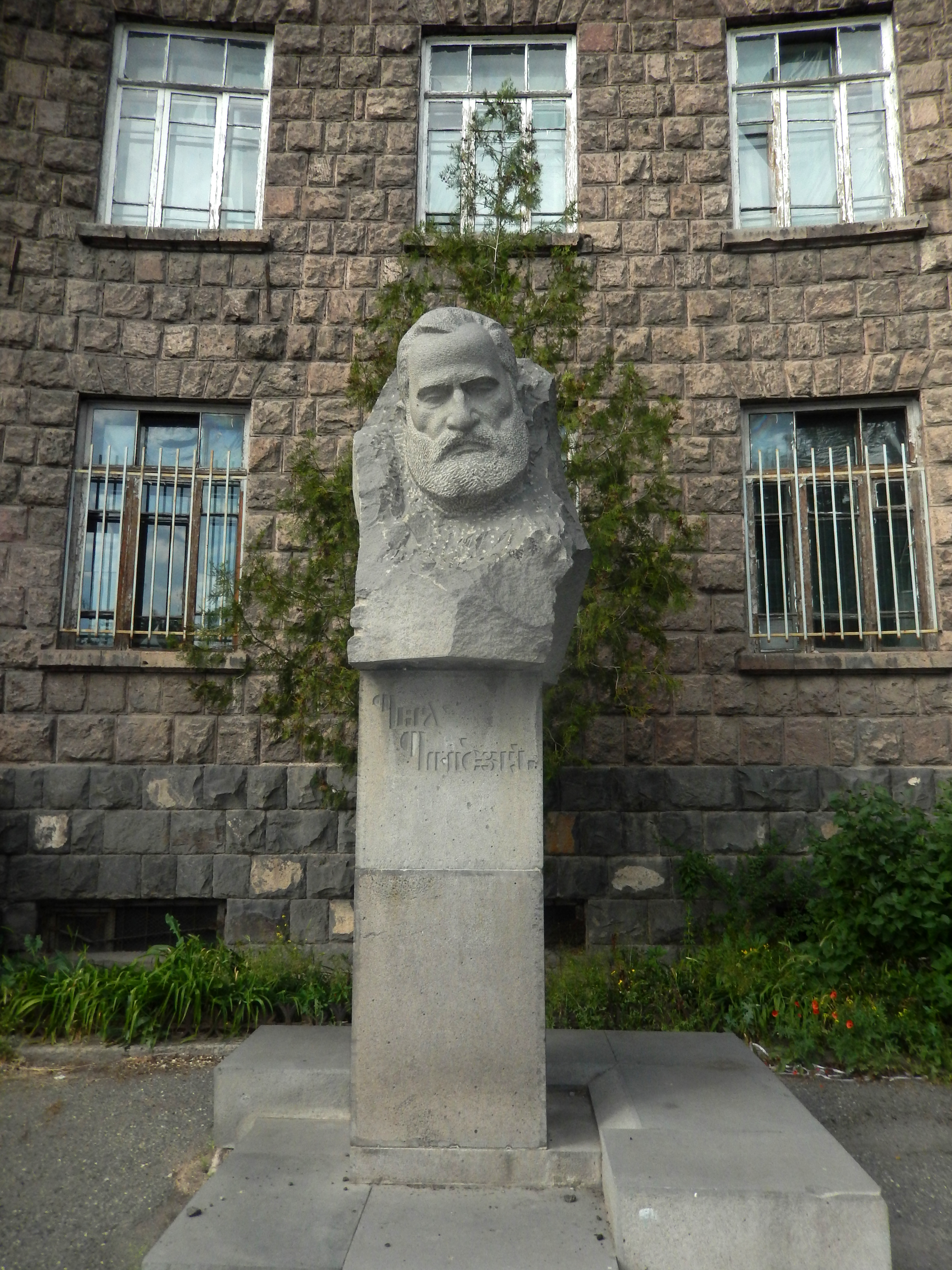 Former school after Perch Proshyan N 15, Yerevan and Perch Proyan's bust